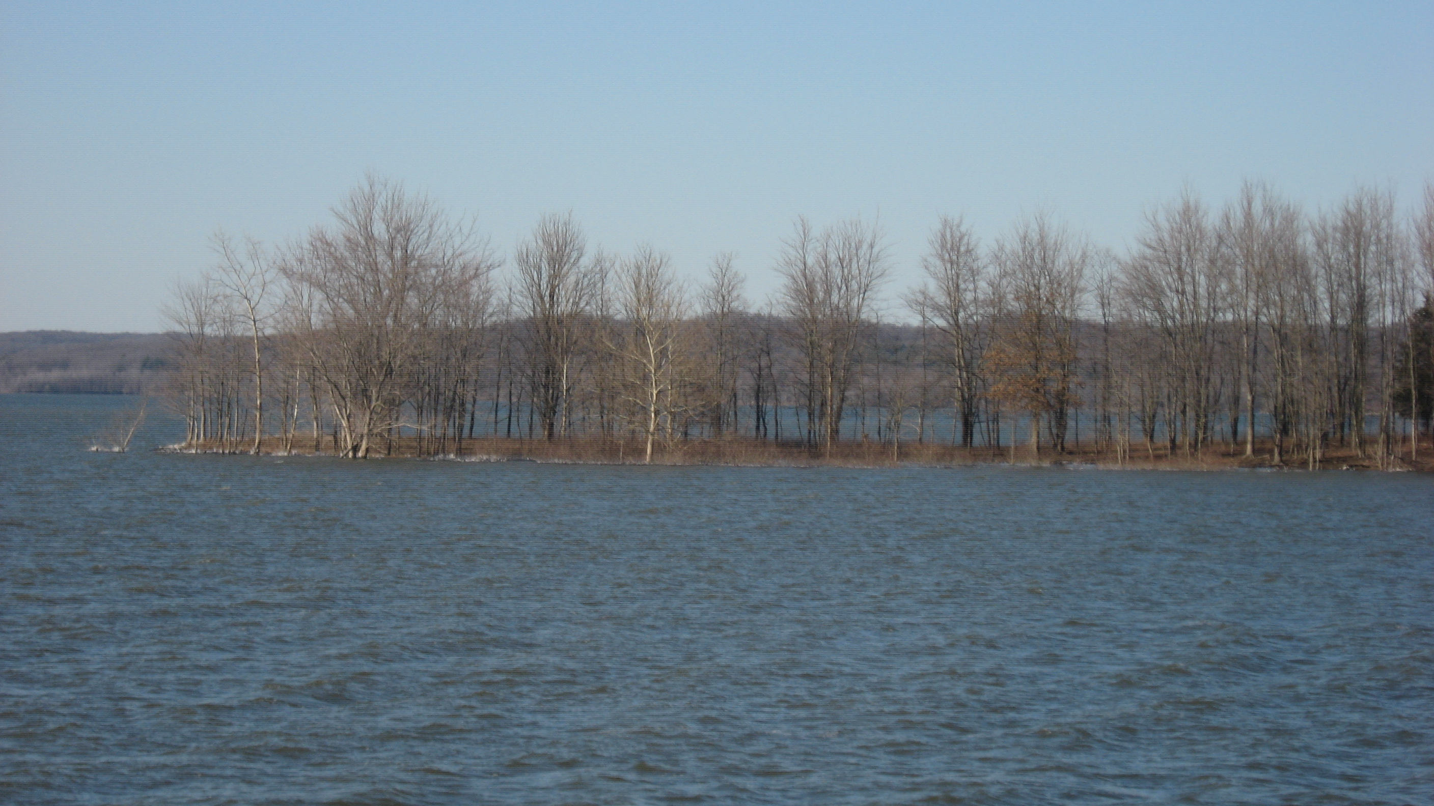 View from the south of the Epsilon II Archaeological Site, located at Ransburg Scout Reservation on a peninsula of Lake Monroe southeast of Bloomington in Polk Township, Monroe County, Indiana, United States. Once used by Late Archaic peoples, it is an archaeological site and listed on the National Register of Historic Places.